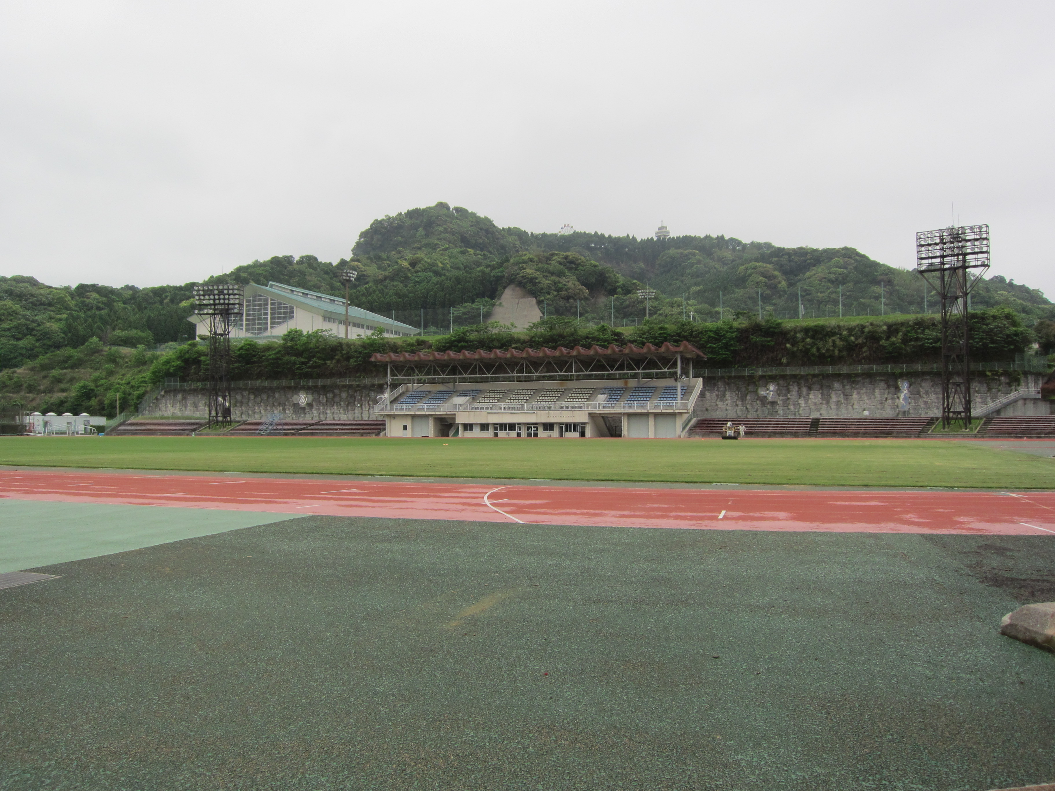 Kokubu Stadium